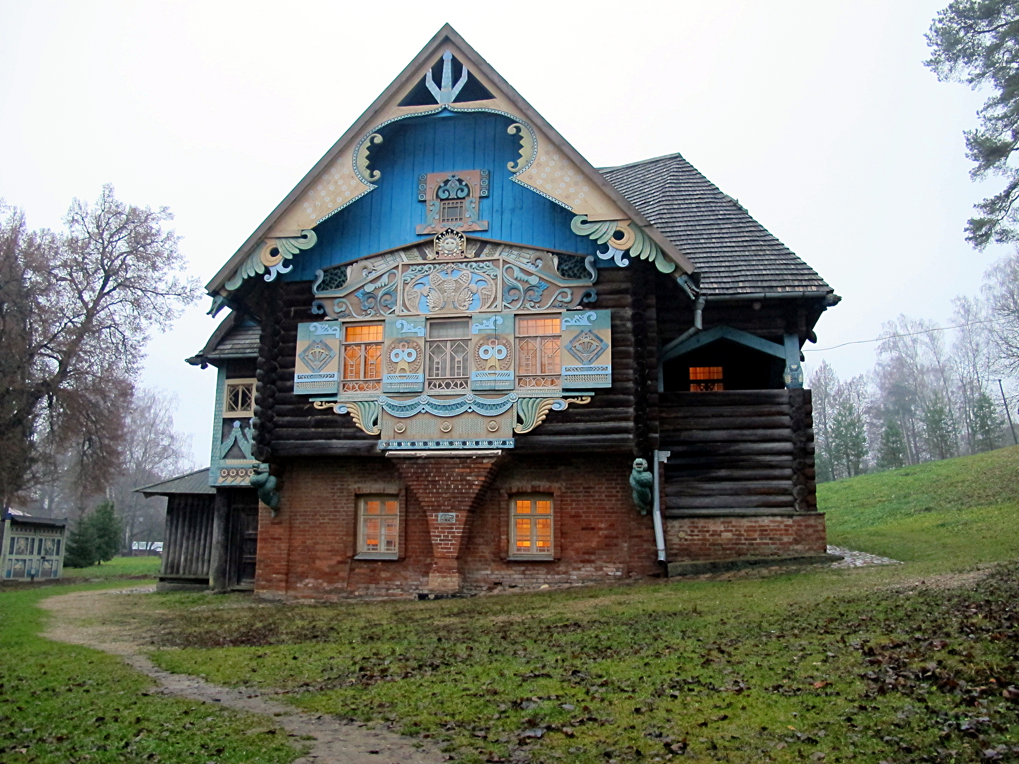 Teremok (Talashkino; 2013-11-10)